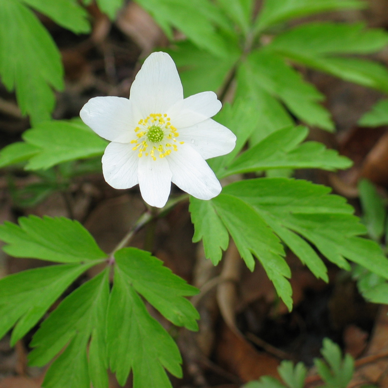 Anemone nemorosa (family Ranunculaceae), Sołtysowicki Forest, Wrocław, Poland.